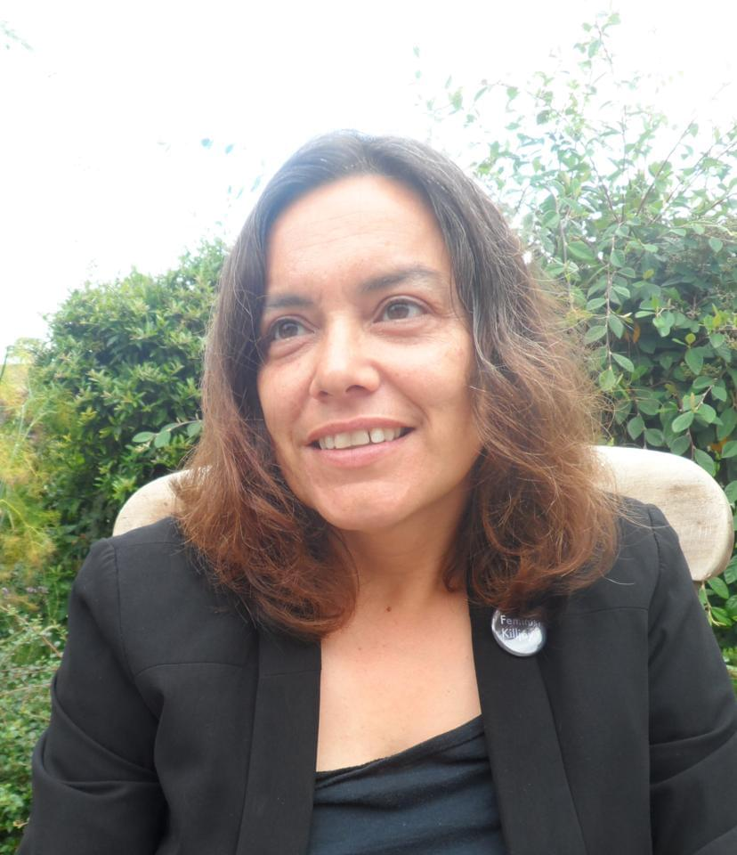 Sara Ahmed